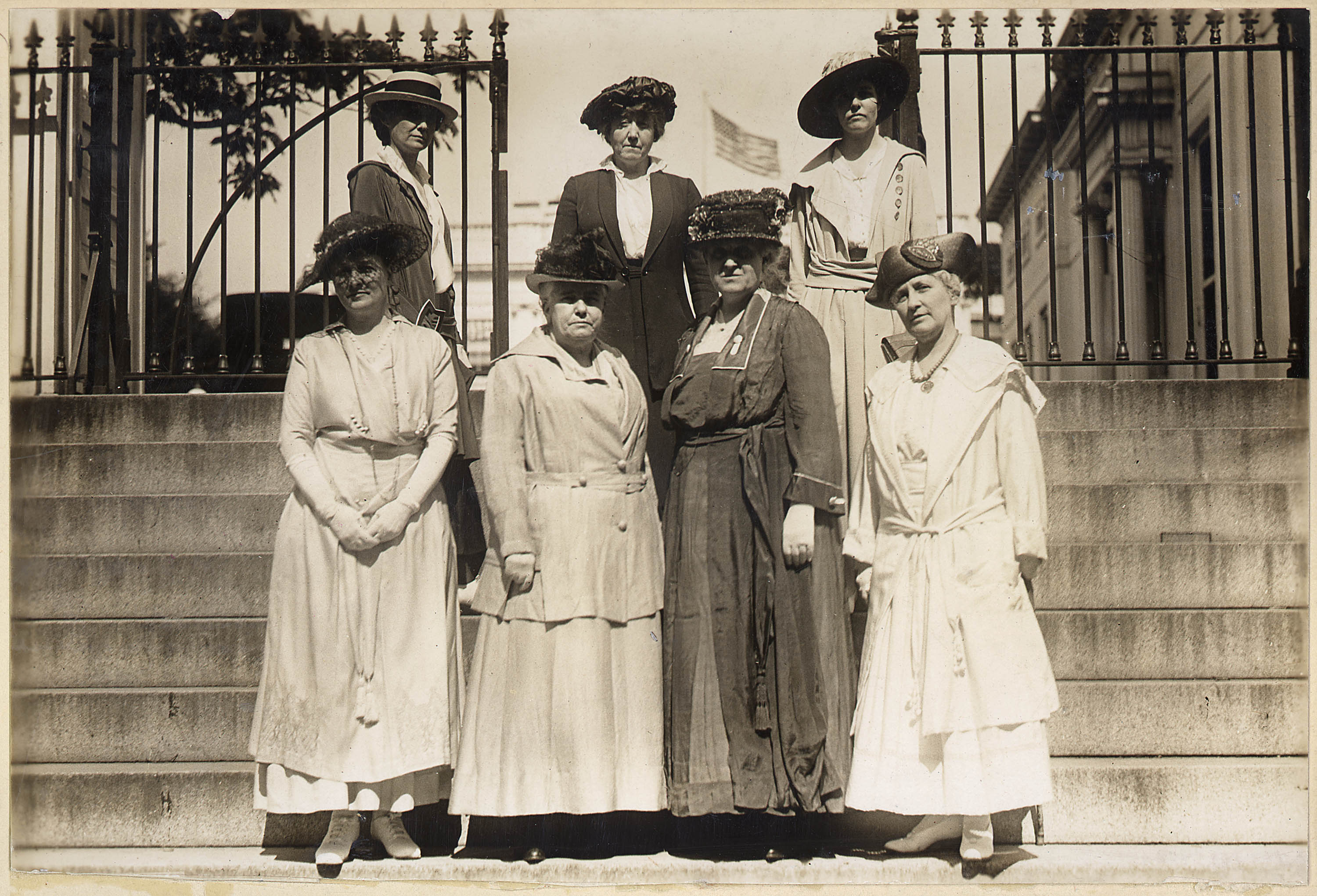 Original Caption: This delegation of officers of the National American Woman Suffrage Association received from President Wilson a memorial to the French women in which he advocates the federal woman suffrage amendment. The picture was made on steps leading to executive offices of the White House. Front row, left to right: Mrs. Wood Park, Dr. Anna Howard Shaw, Mrs. Carrie Chapman Catt, Mrs. Helen H. Gardner: second row, Miss Rose Young, Mrs. George Bass, and Miss Ruth White. U.S. National Archives’ Local Identifier:165-WW-(600A)3 From:Series: American Unofficial Collection of World War I Photographs, compiled 1917 - 1918 Created By:War Department. (1789 - 09/18/1947) Production Date:1917 - 1918 Persistent URL: Repository: NARA's Still Picture Records Section, National Archives at College Park (College Park, MD) Access Restrictions: Unrestricted Use Restrictions: Unrestricted